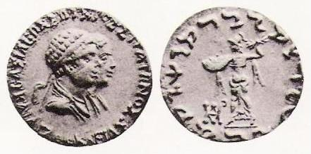 Coin of Strato I and Agathokleia. Obv: Conjugate busts of Strato and Agathokleia. Greek legend: BASILEOS SOTEROS STRATONOS KAI AGATOKLEIAS "Of King Strato the Saviour and Agathokleia". Rev: Athena throwing thunderbolt. Kharoshthi legend: MAHARAJASA TRATASARA DHARMIKASA STRATASA "King Strato, Saviour and Just (="of the Dharma")". British Museum (text from Menander I)